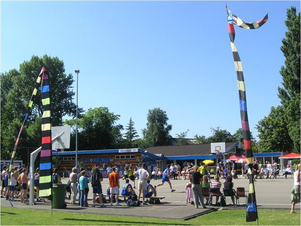 Accomodatie Sparrendaal